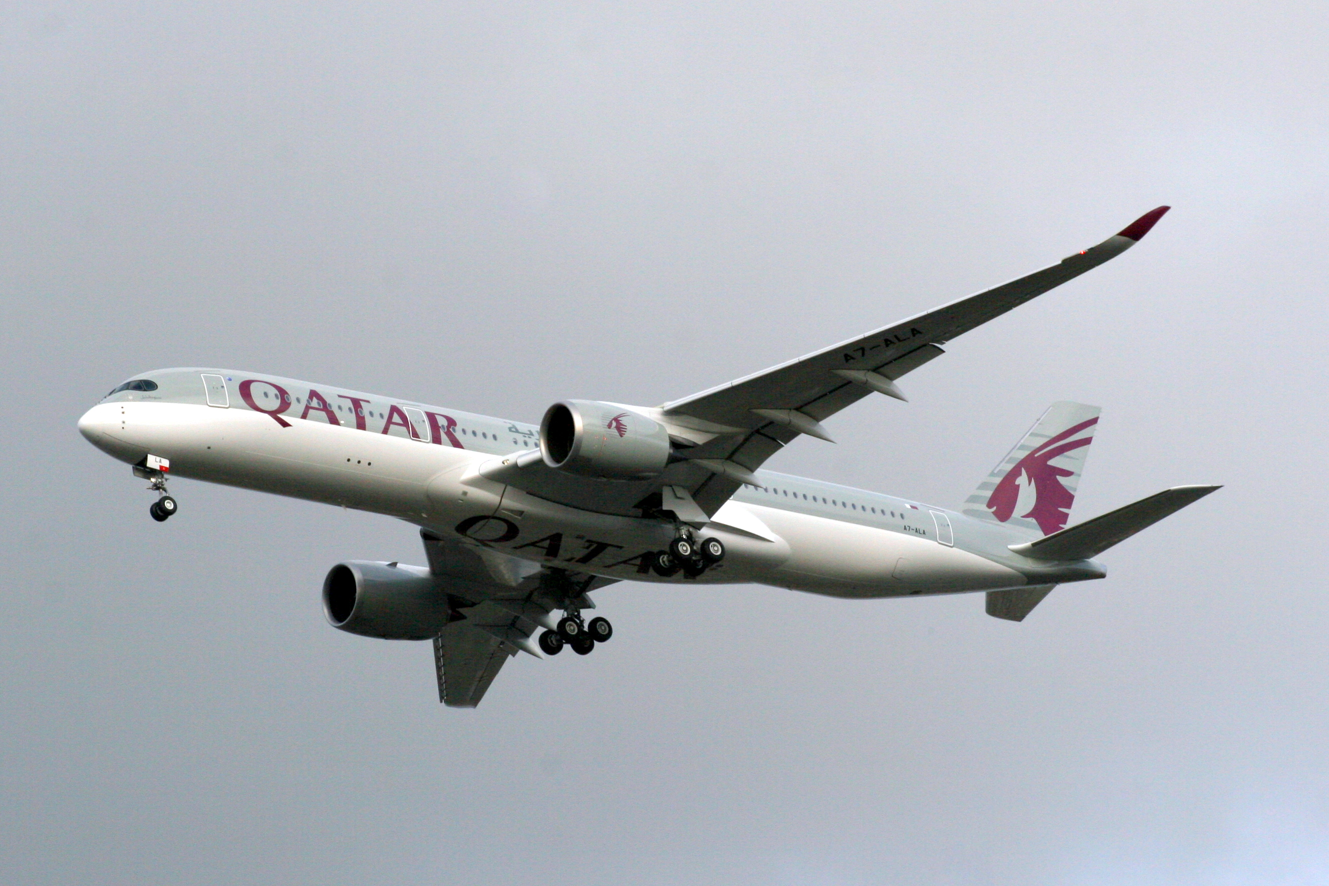 A7-ALA Airbus A350-941 Qatar Airways passing over Londons first airport Heathrow on its first visit of type. Other photographs in this sequence : File:Qatar Airways Airbus A350 on finals on its first flight to London Heathrow Airport (1).jpg File:Qatar Airways Airbus A350 on finals on its first flight to London Heathrow Airport (2).jpg